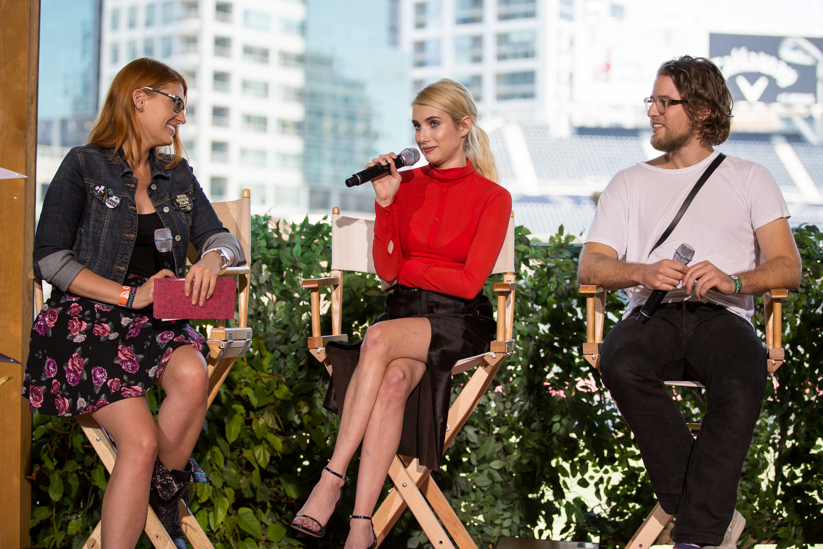 Camp Conival offsite at Petco Park during San Diego Comic-Con 2016